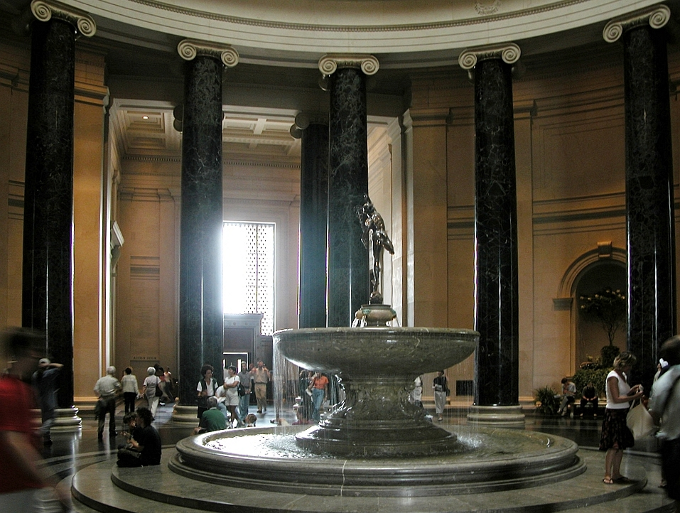 Interior of West Building—National Gallery of Art, Washington D.C., U.S.